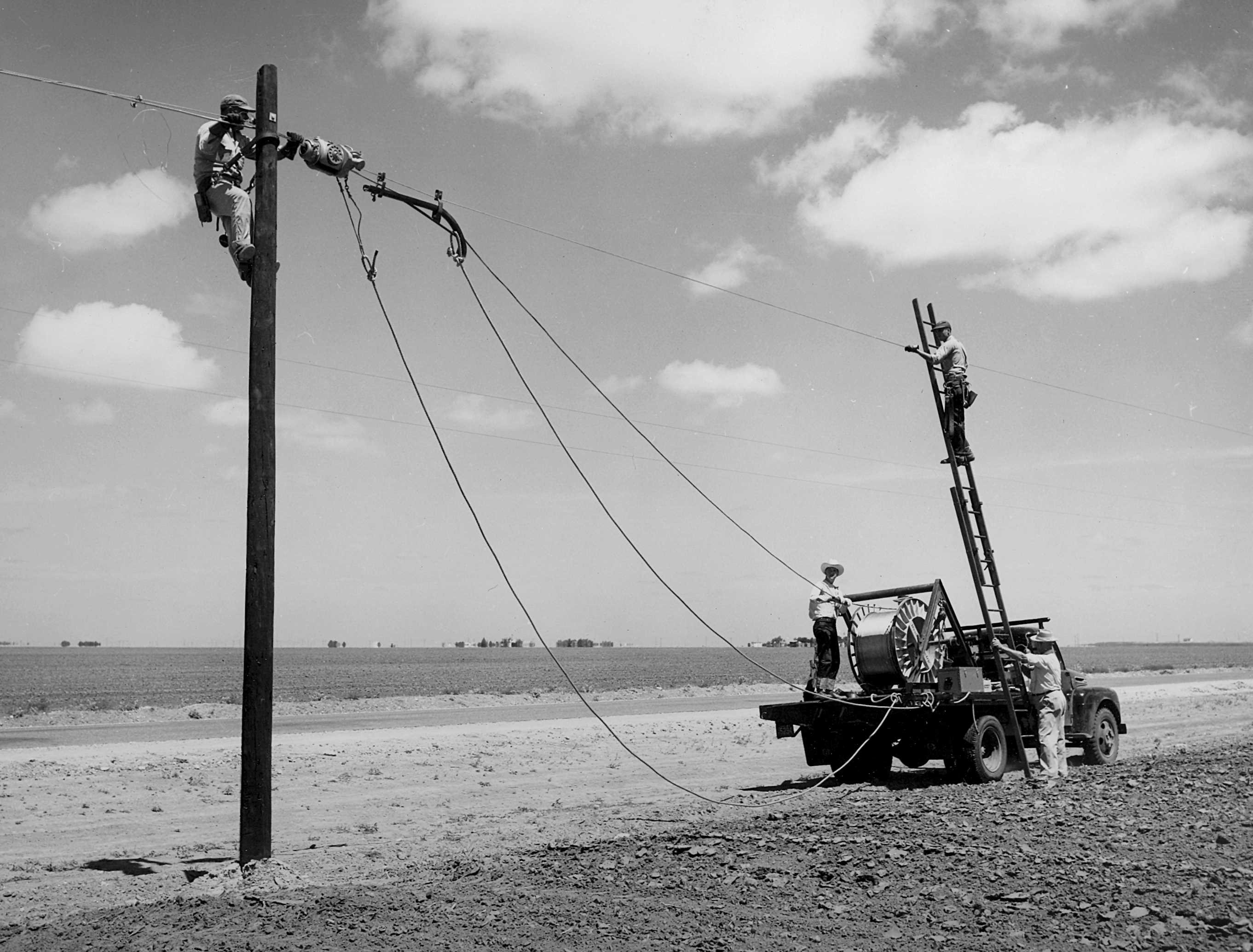 Rural Electrification Administration (REA) erects telephone lines in rural areas. Photo courtesy of National Archives and Records Administration.